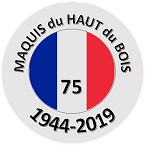 75em Anniversaire de l'attaque du Maquis